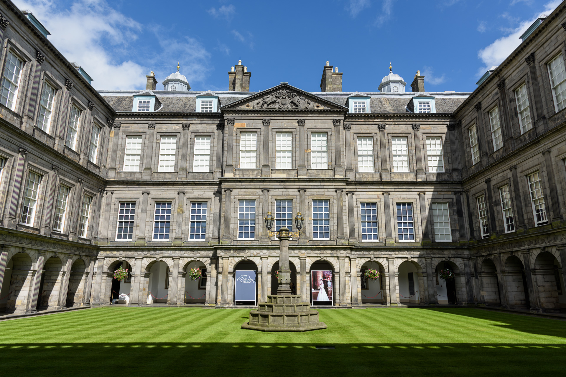 Inner courtyard of Holyrood palace.